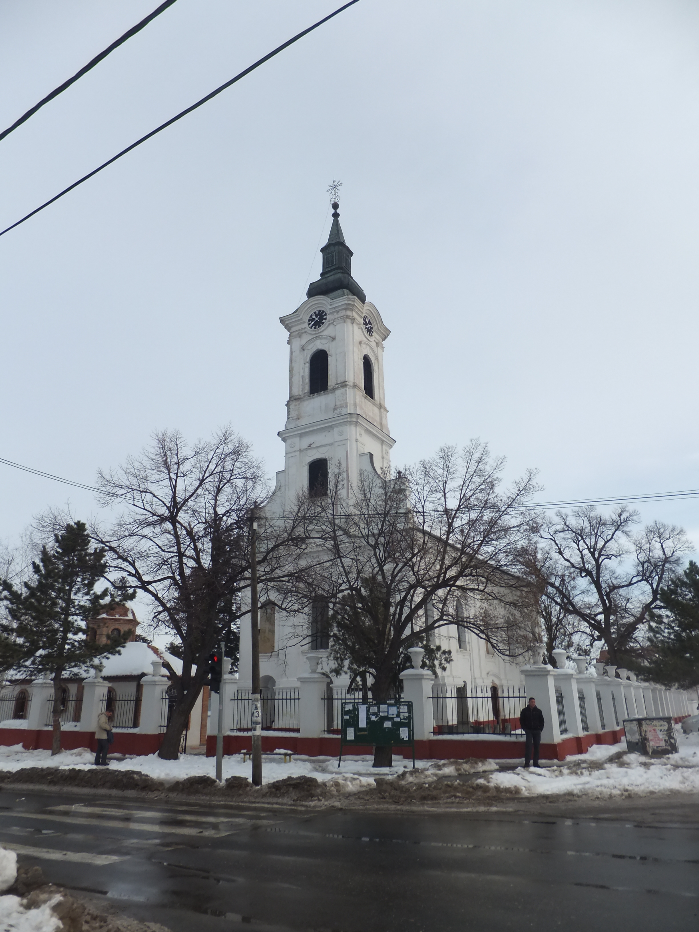 Church of Saint Nicholas in Dobanovci